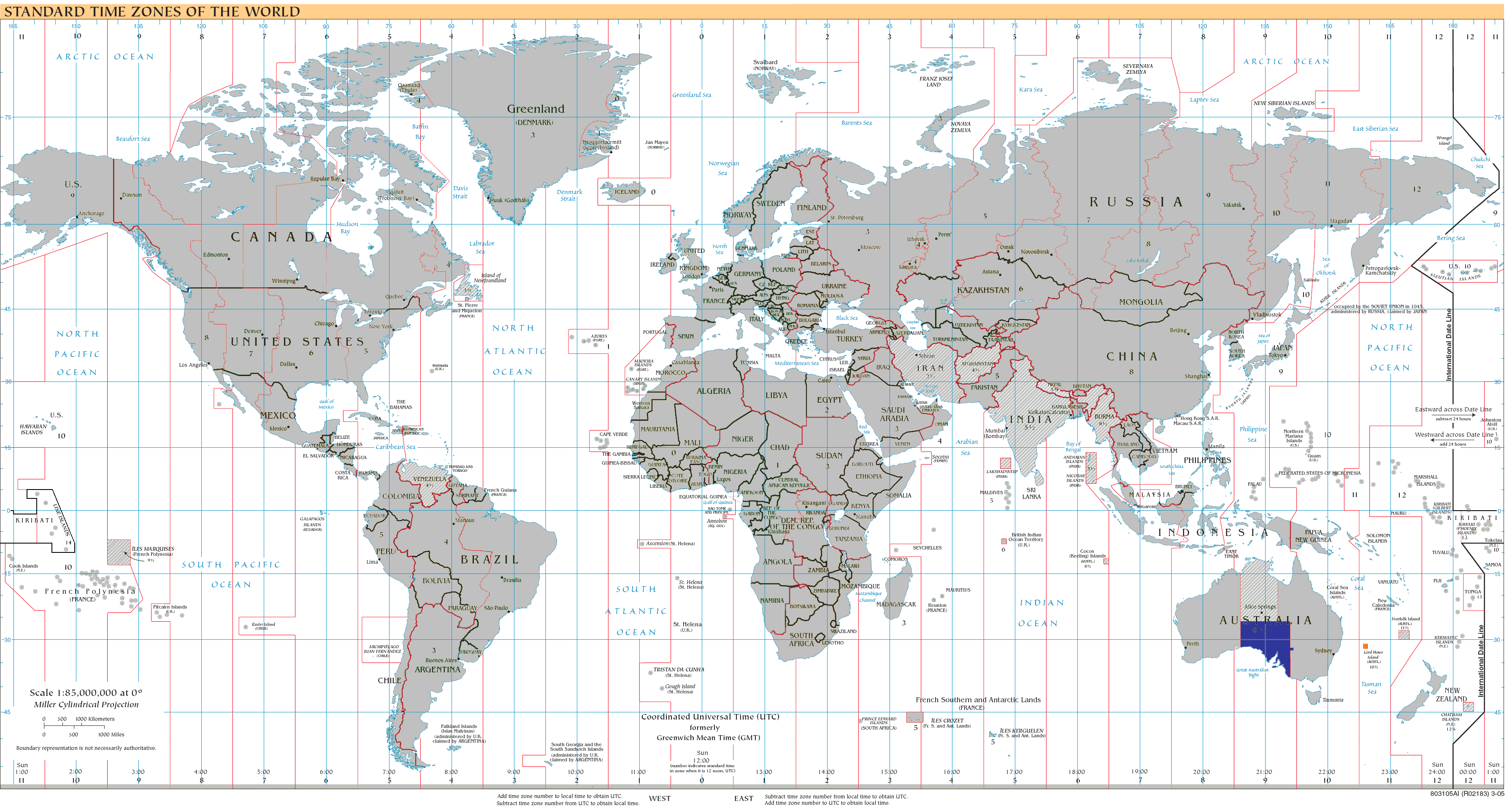 World map of time zones as of June 2008. Highlighting UTC+10:30 Orange: UTC+10:30 Southern Hemisphere Winter/ Northern Summer Dark Blue: UTC+10:30 Southern Hemisphere Summer/ Northern Winter